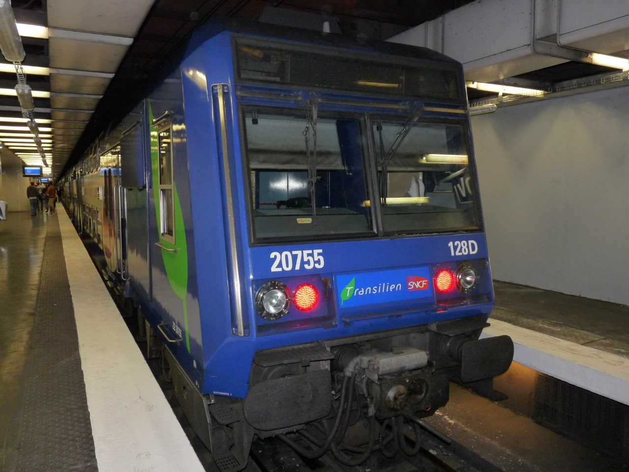 Z 20500 of RER D line going to the north, saw at Châtelet-les-Halles station.